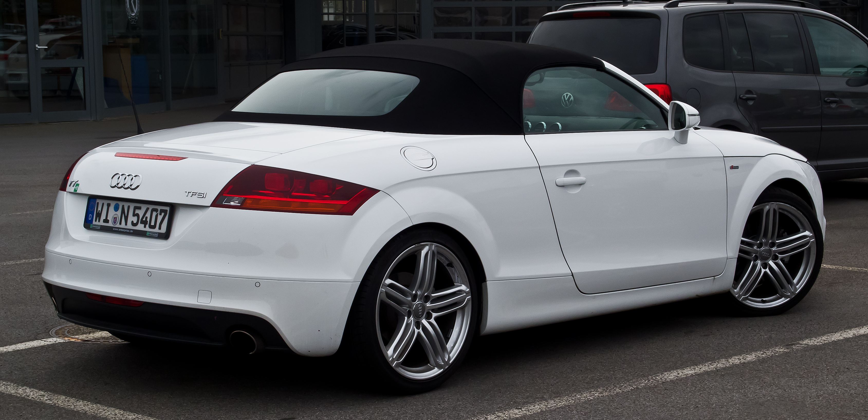 Audi TT Roadster 2.0 TFSI S-line (8J, Facelift)